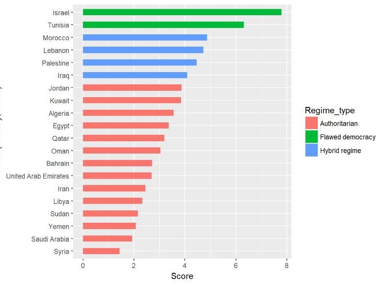 Democracy index in midel-east in 2017